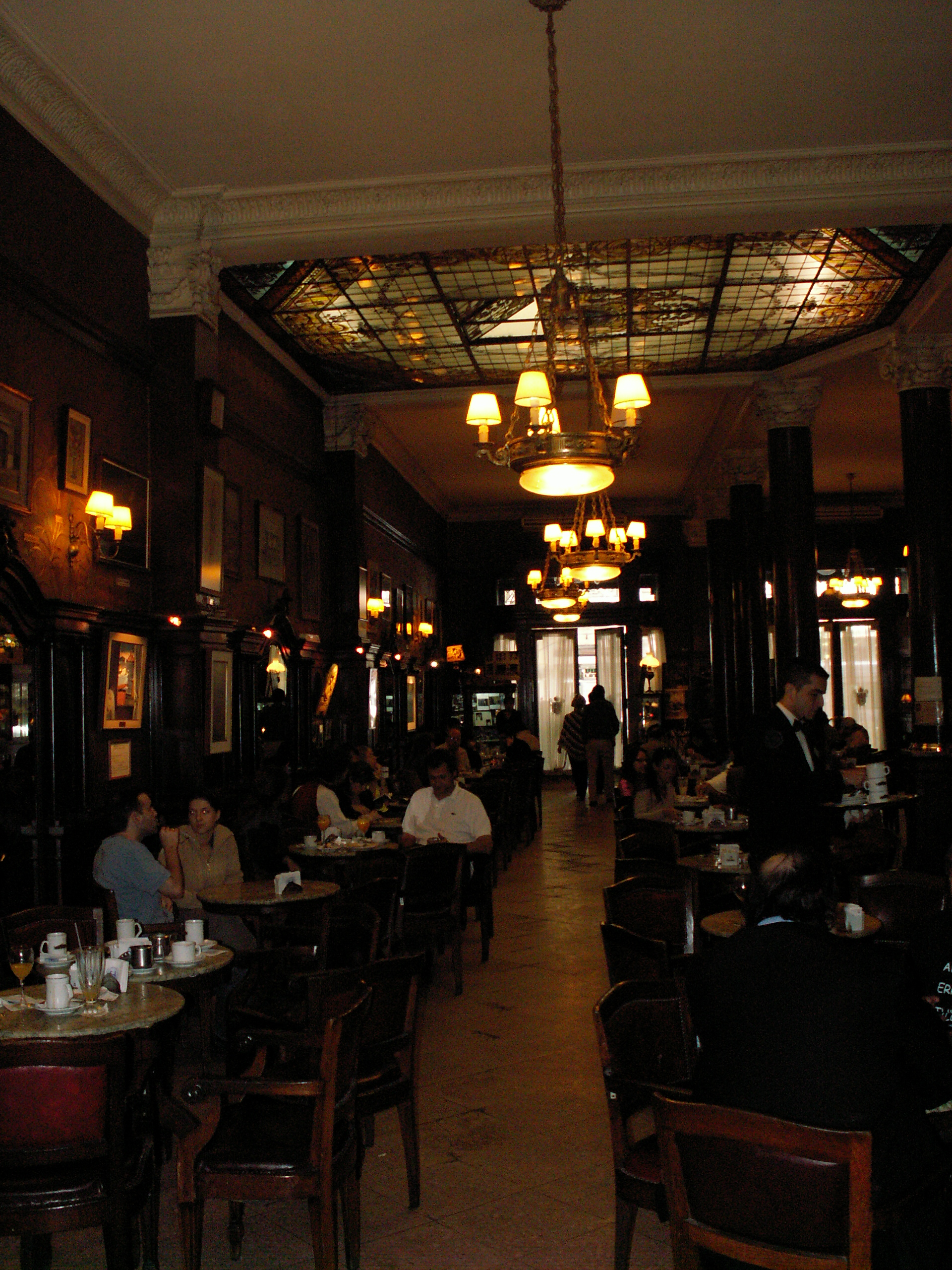 Cafe Tortoni